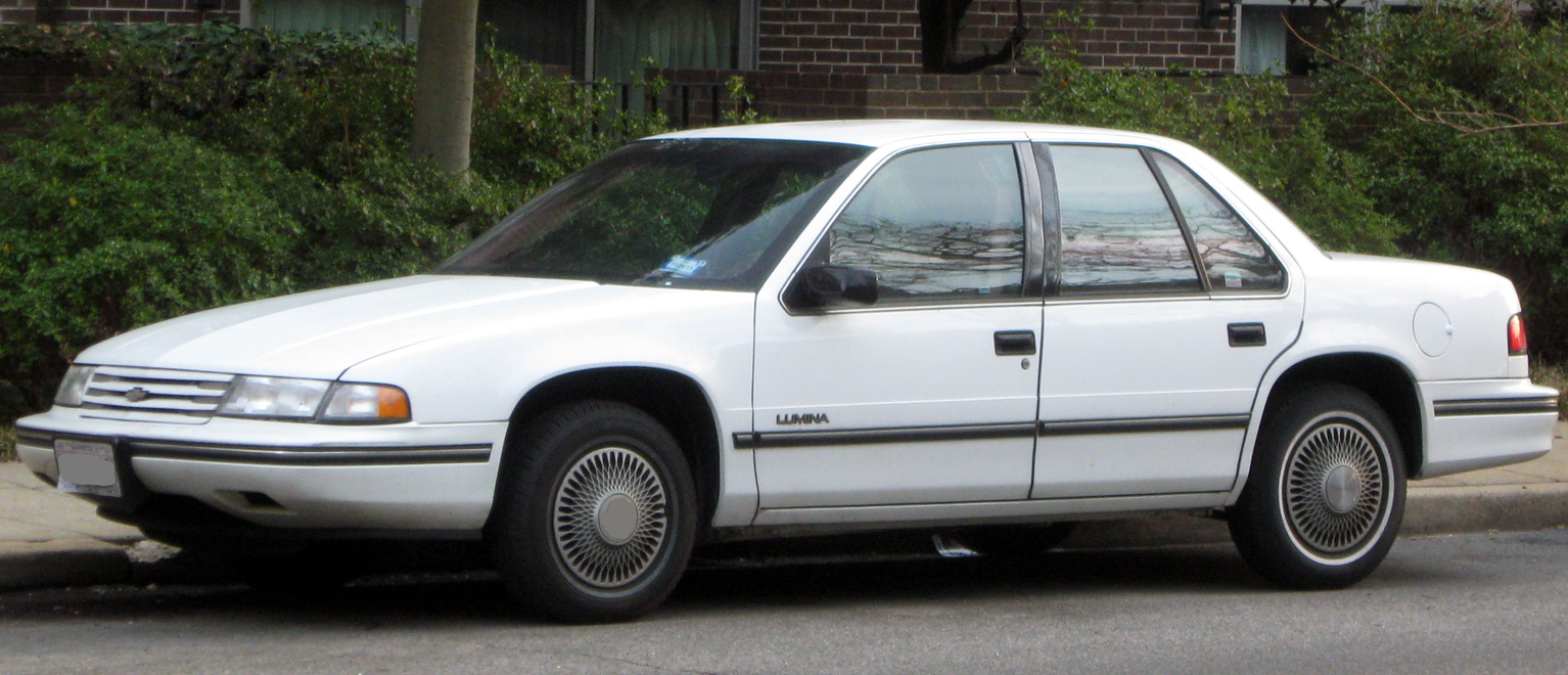 1991-1994 Chevrolet Lumina photographed in Washington, D.C., USA.